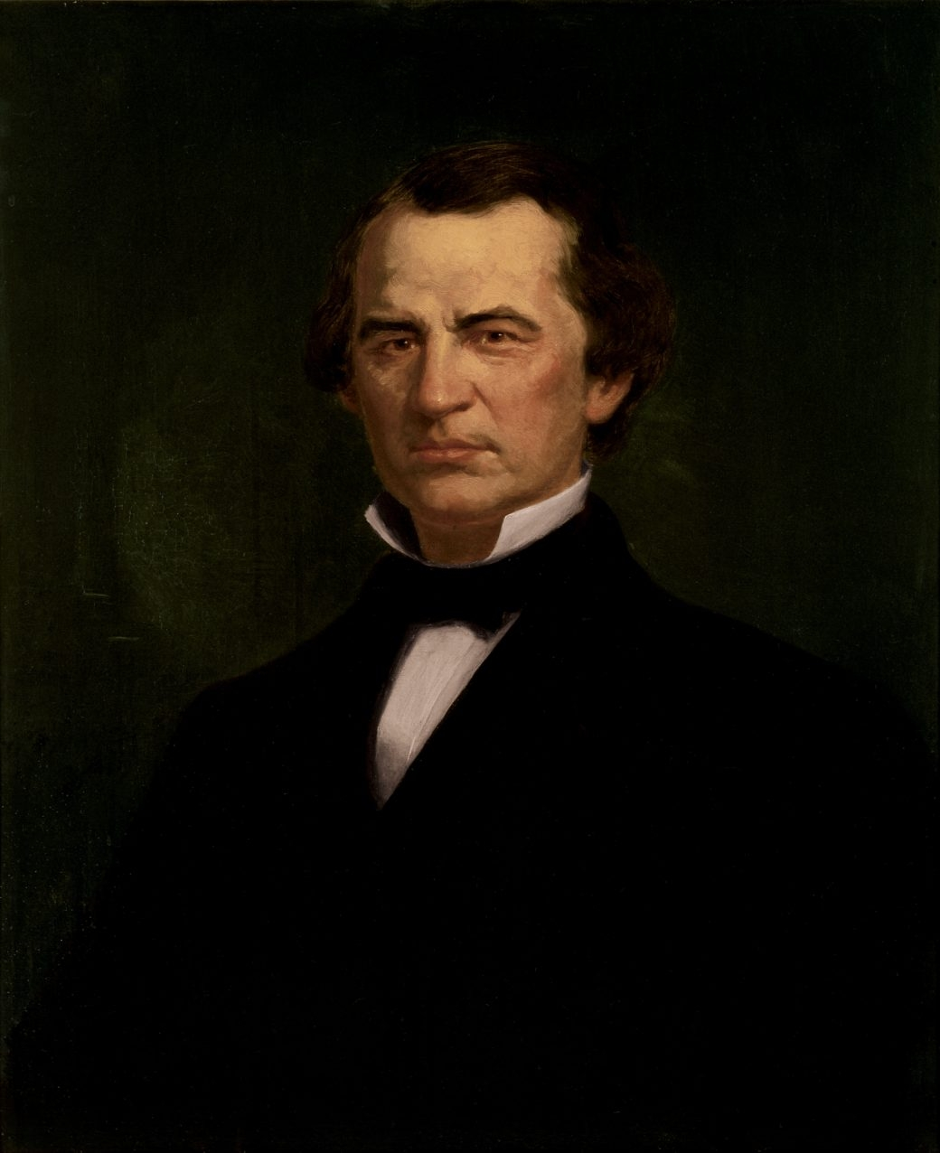 Official White House portrait of Andrew Johnson by Eliphalet F. Andrews, 1880